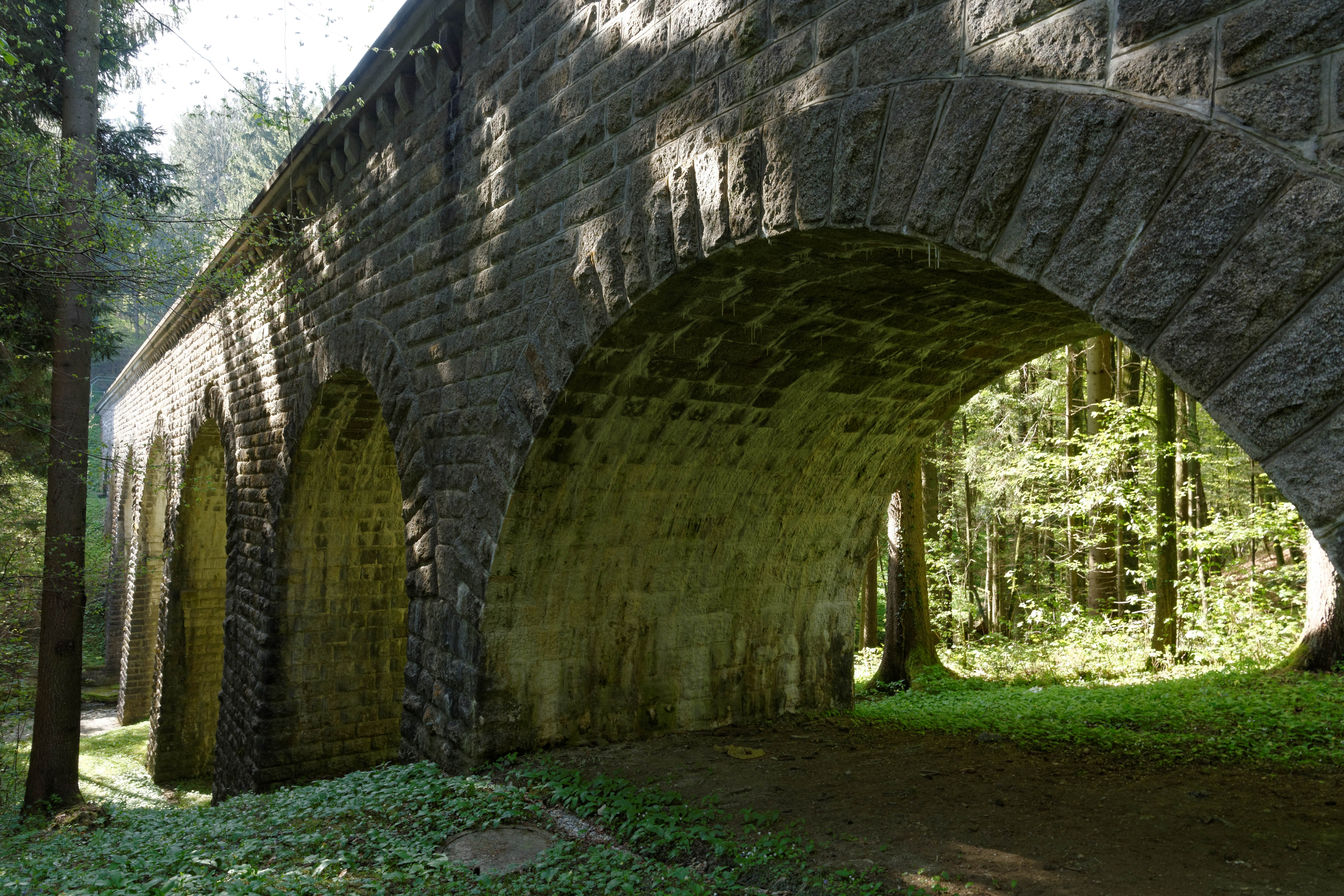 Aqueduct of the second Vienna water pipeline near Oberndorf an der Melk, Lower Austria, Austria